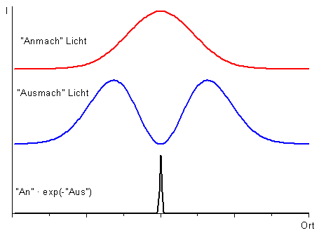 Principle of a STED microscope